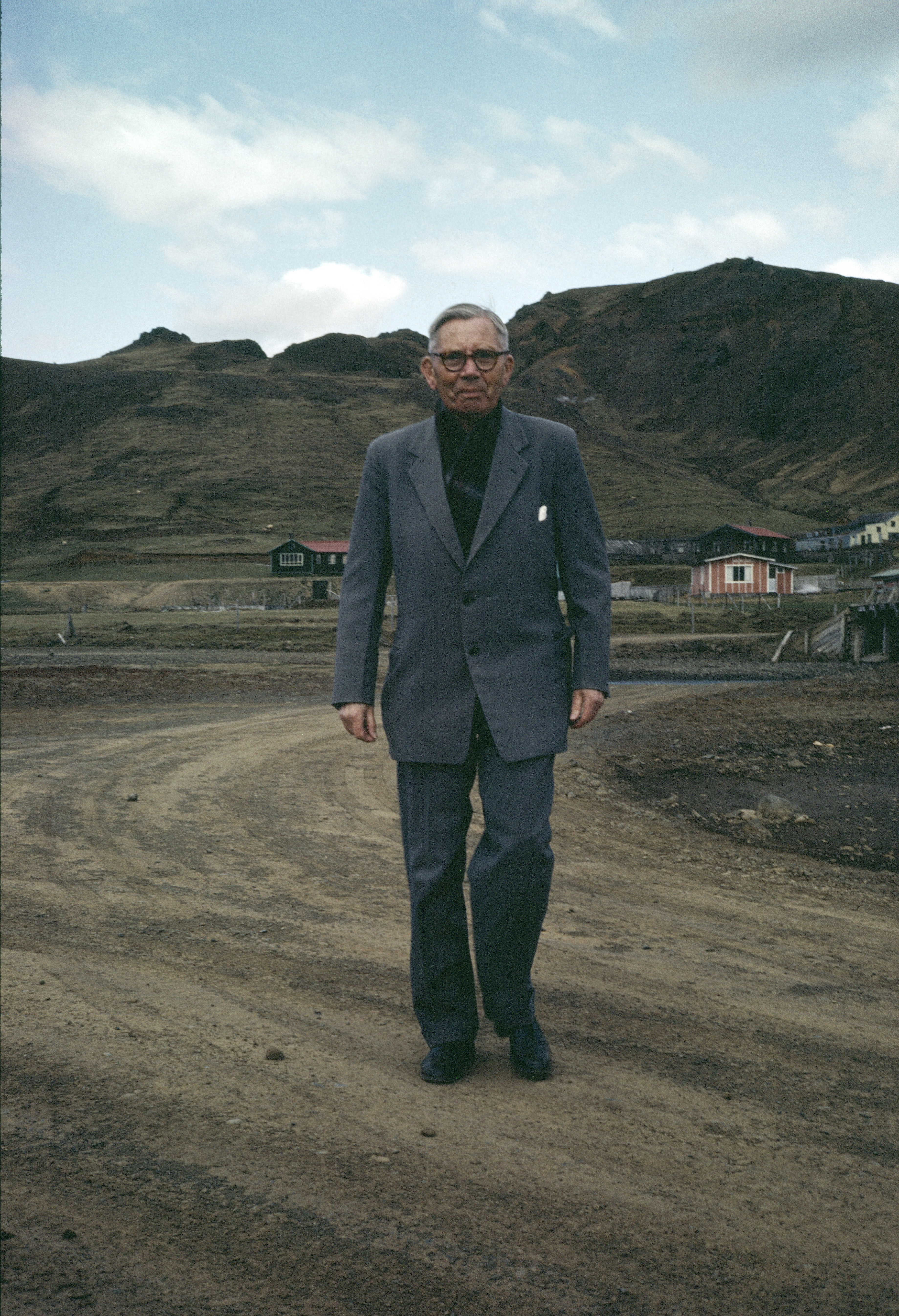 Ásmundur Guðmundsson in Hveragerði ca. 1963